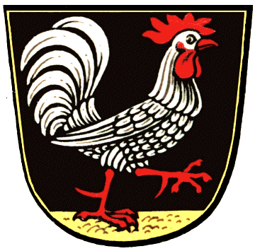 Coat of arms of Horhausen (Nassau)